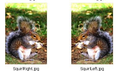 Revers image using Image processing